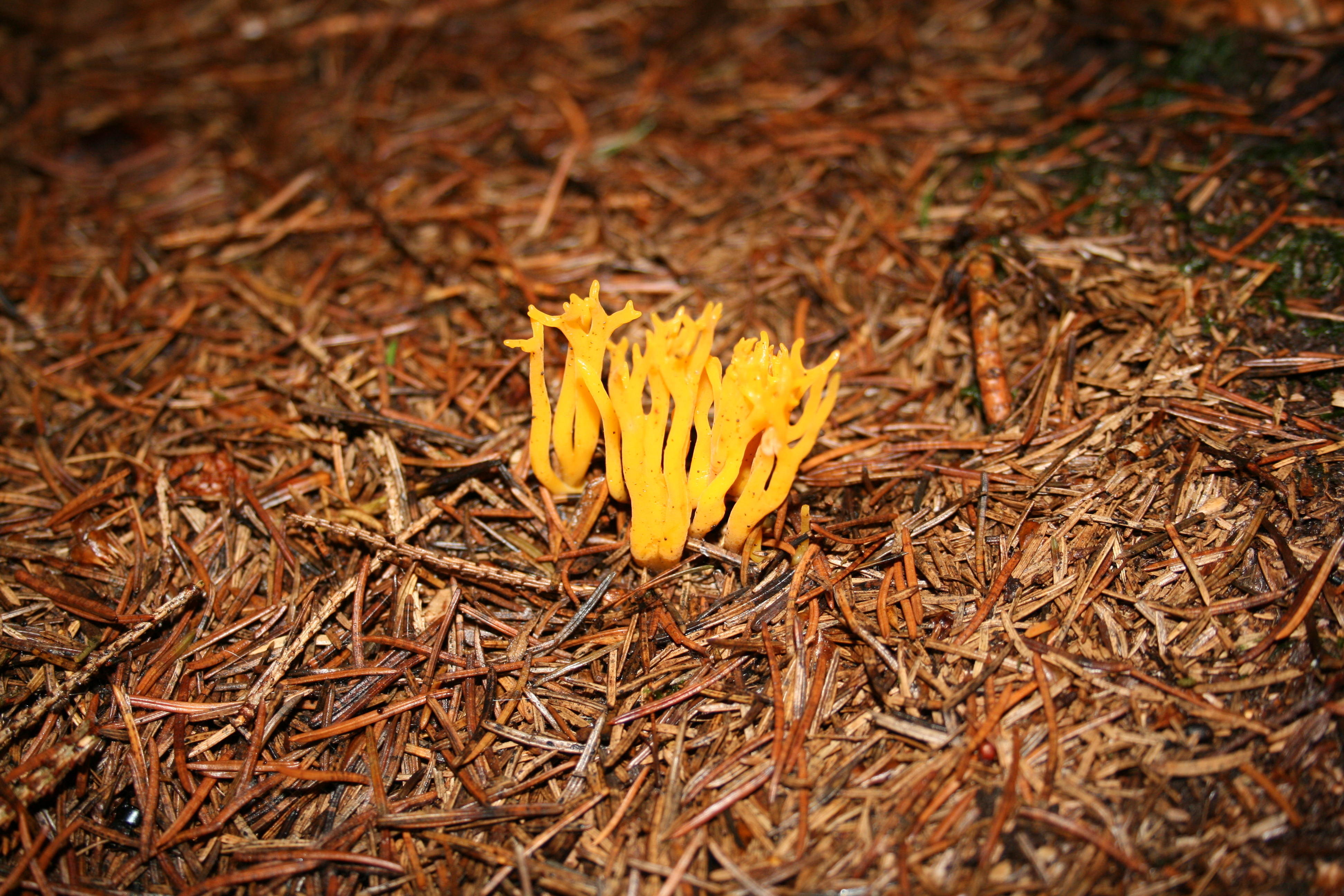 Calocera, found on hill Straznik, by village Perimov, Czech republic.